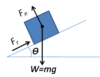 This is a demo picture to represent the Friction relation with the Normal force.